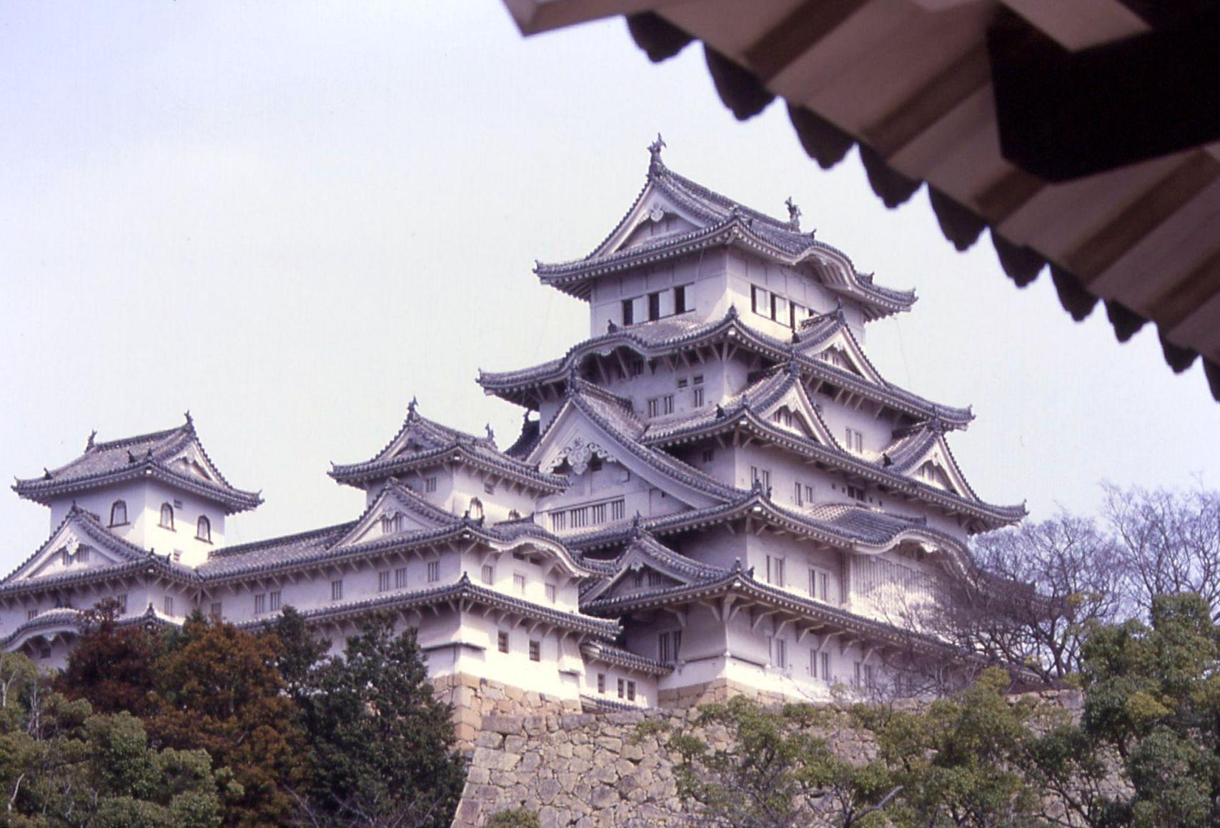 Himeji castle, 1609. Himeji.